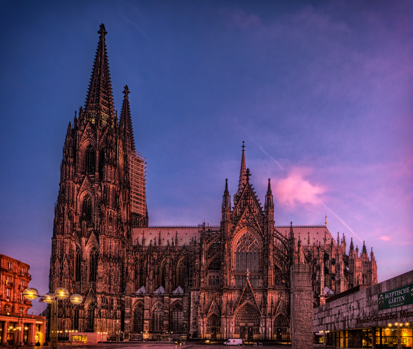 Cologne Cathedral at sunrise. HDR from 3 shots, blended in Photomatix and tonemapped using Details Enhancer. Noise removed using Neat Image and postprocessed using Nik Color Efex and Photoshop. I don't normally crop to non-standard formats, but here I wanted to correct the perspective, and there was no other way to crop it after that.